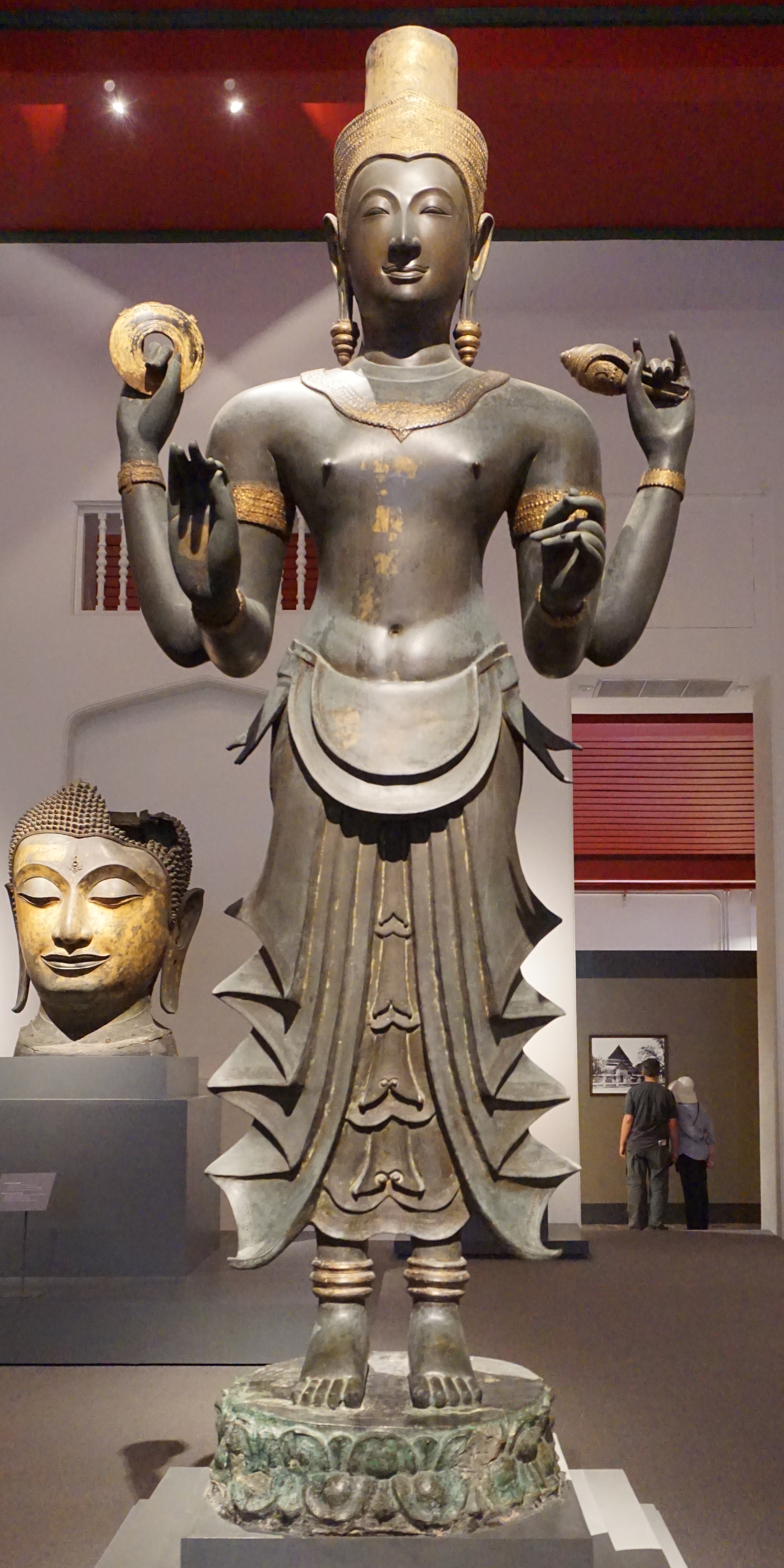 14th century CE, Hindu god Vishnu, Photograph from the National Museum, Bangkok, Thailand